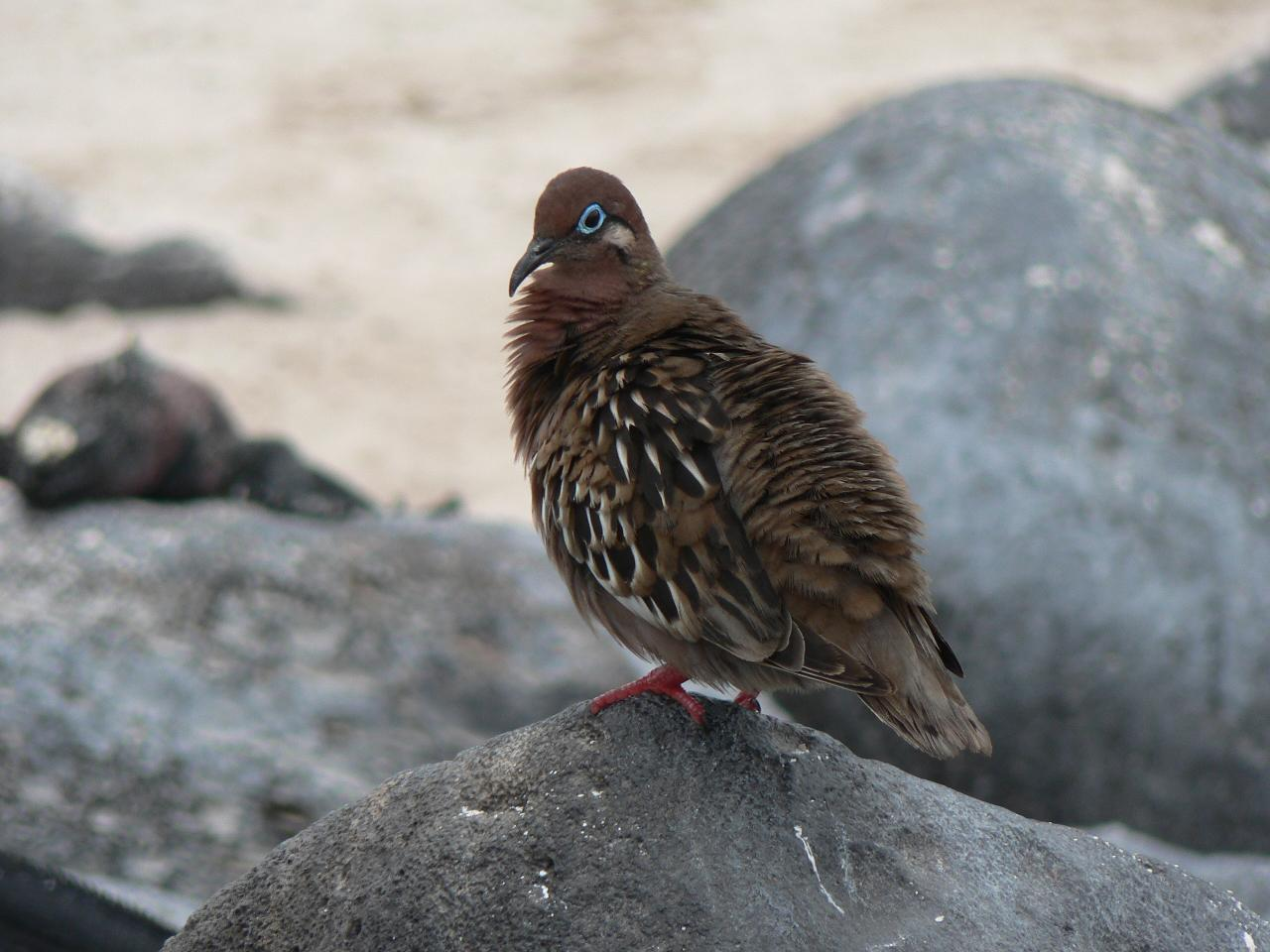 Galapagos Dove Zenaida galapagoensis on the island of Espanola